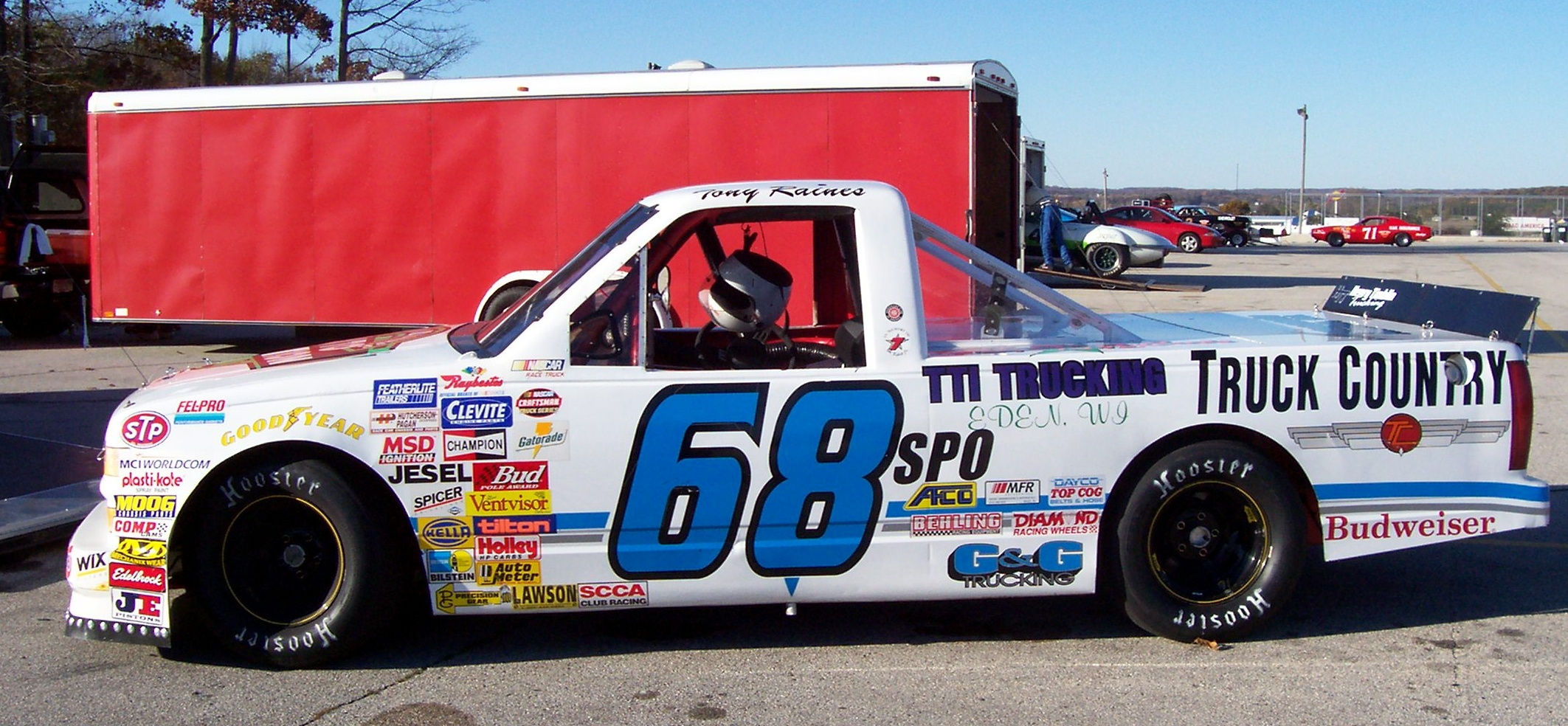 Raines raced in only 1 CTS race in the #68 truck, and it was in 1999.